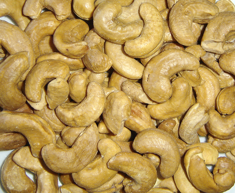 Industrially toasted cashew nuts. Town of Prainha near Fortaleza, Ceará, Brazil.